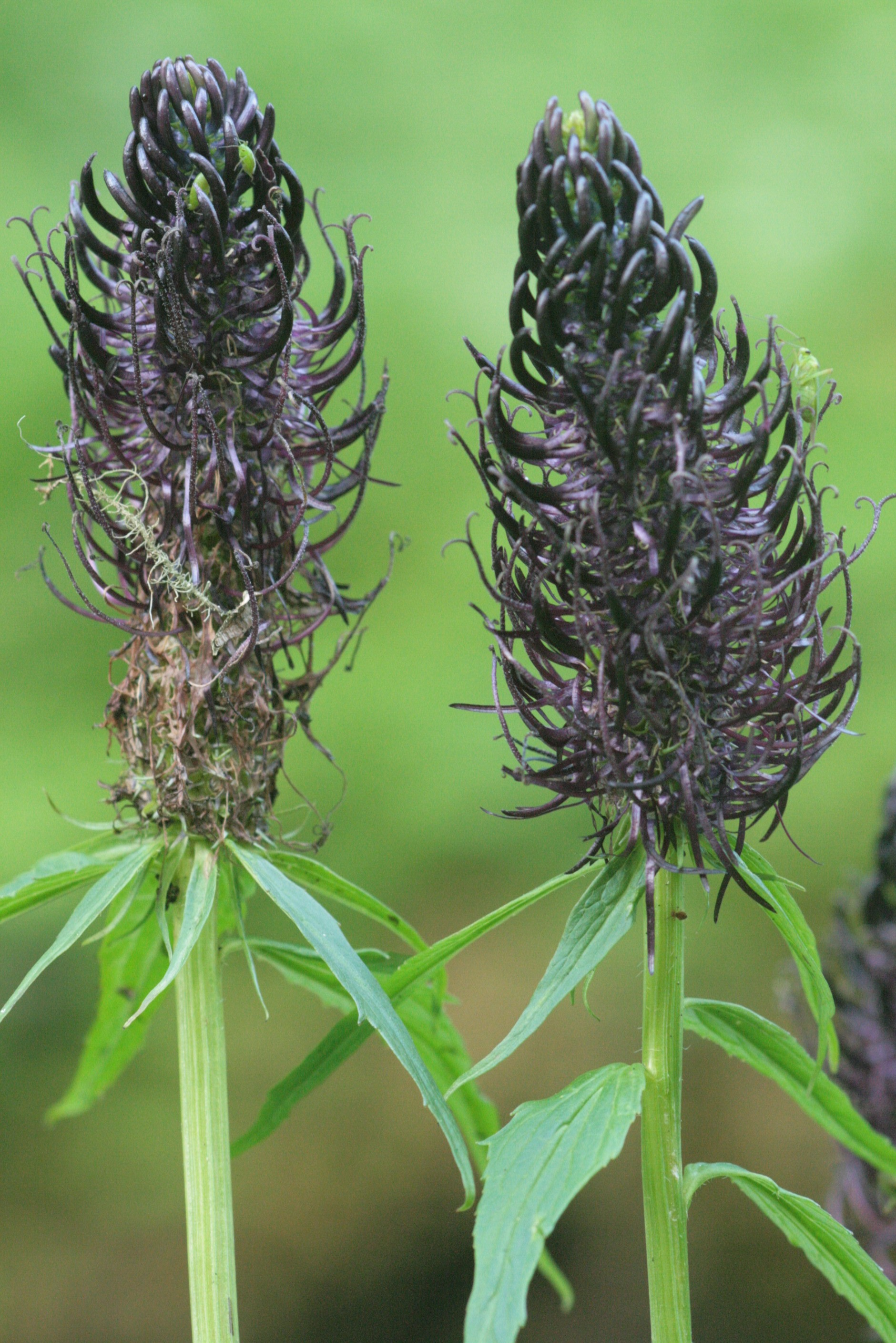 Phyteuma ovatum